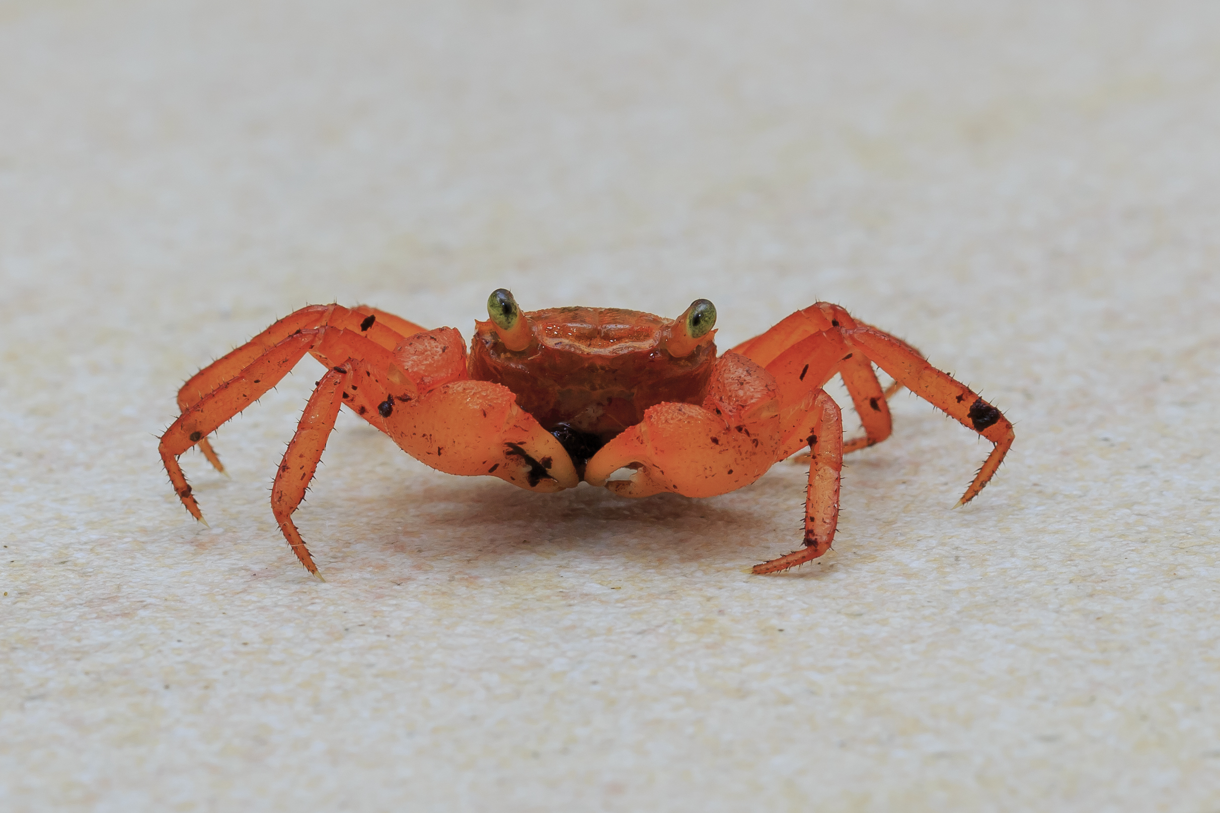 Lahad Datu, Sabah: Silam Crab (species: Geosesarma aurantium) on Mount Silam. Size ca. 15 mm